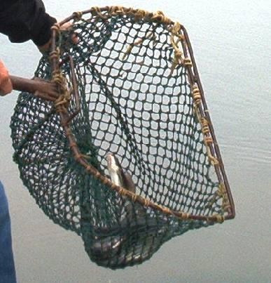 Fishing net. Photo taken May 15, 2003 while stocking a pond. Photo courtesy of the Goddard Spaceflight Center Sport Fishing Club.